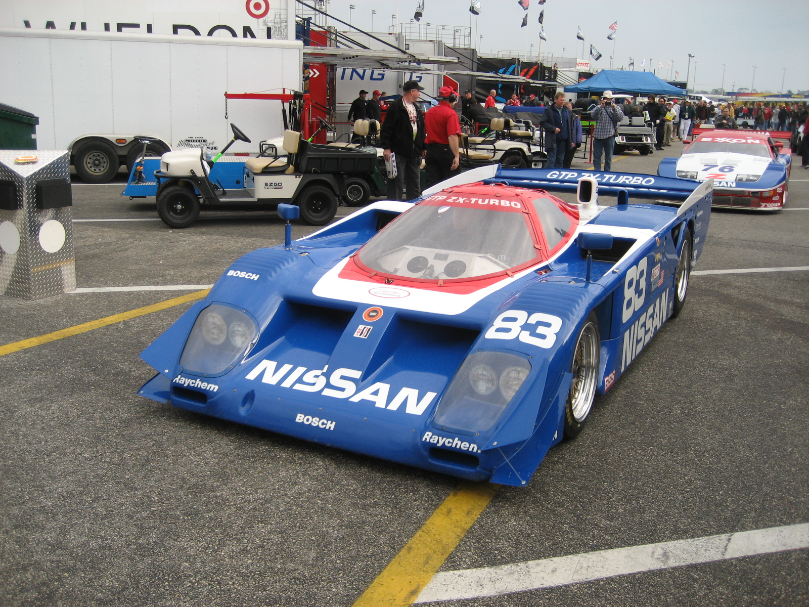 Nissan GTP ZX-Turbo chassis ZXT-8805.